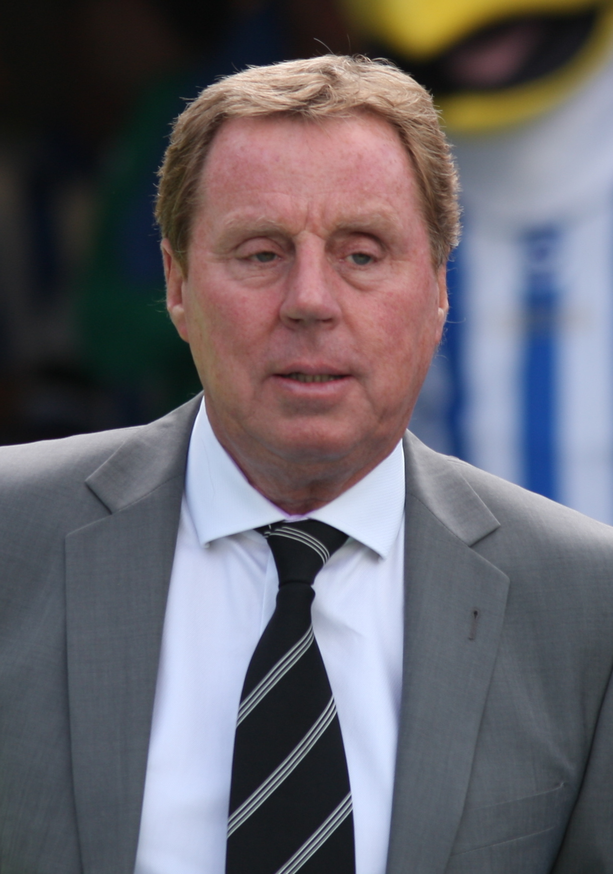 Brighton v Spurs Amex Opening 30/7/11